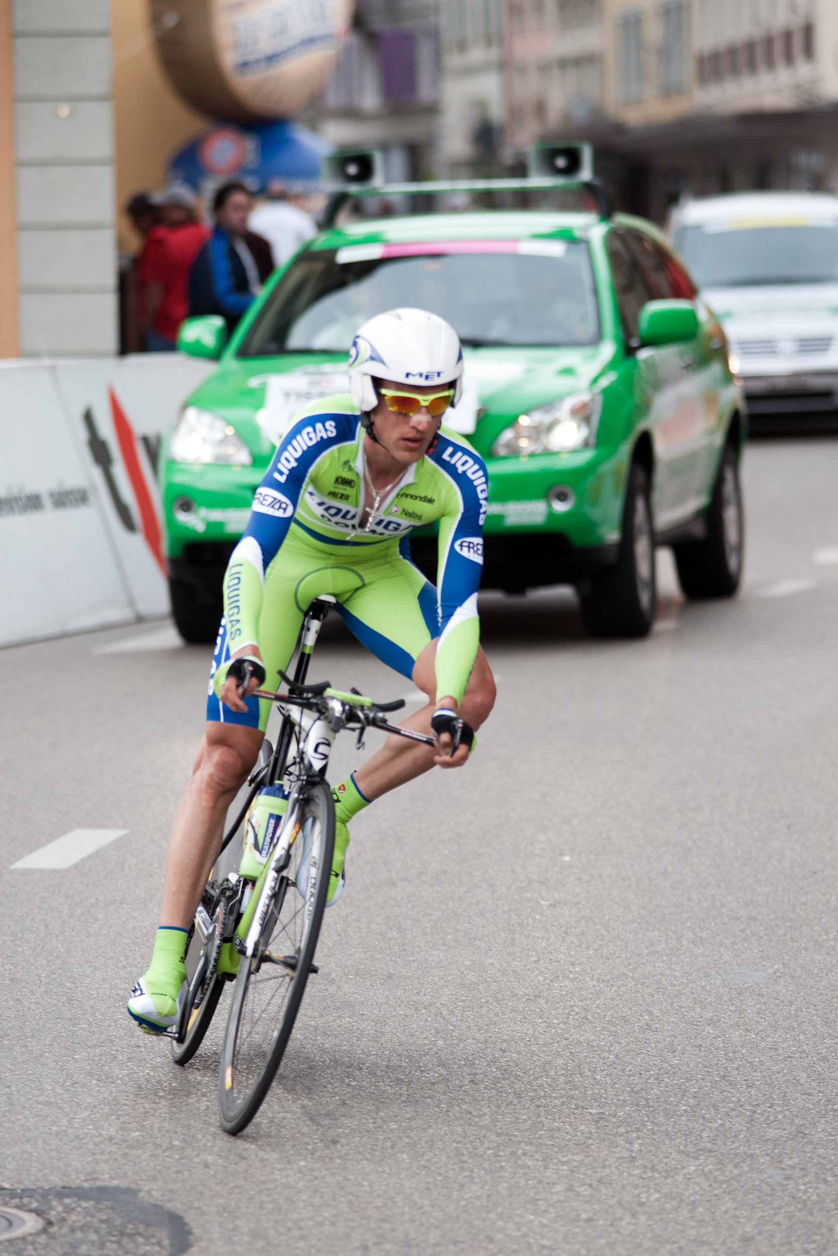 Sylvester Szmyd during the 3rd stage of the Tour de Romandie 2010.